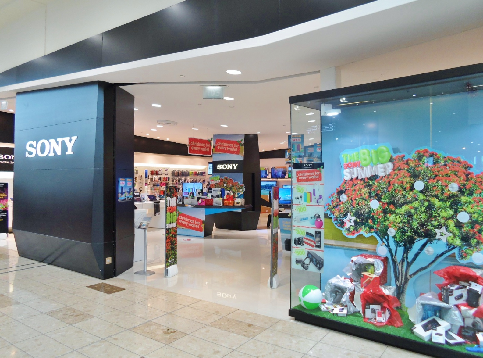 Retail outlet of Japanese electronics company SONY at Westfield Riccarton shopping centre in Christchurch, New Zealand in 2013.